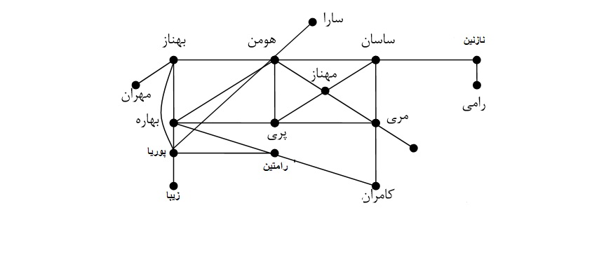 گراف روابط آشنایی